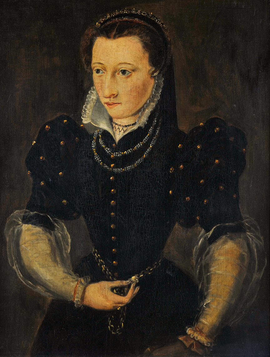 Portrait d’Idelette de Bure, Idelette Calvin